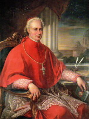 Luigi Lambruschini, cardinal secretary of state from 1836 to 1846